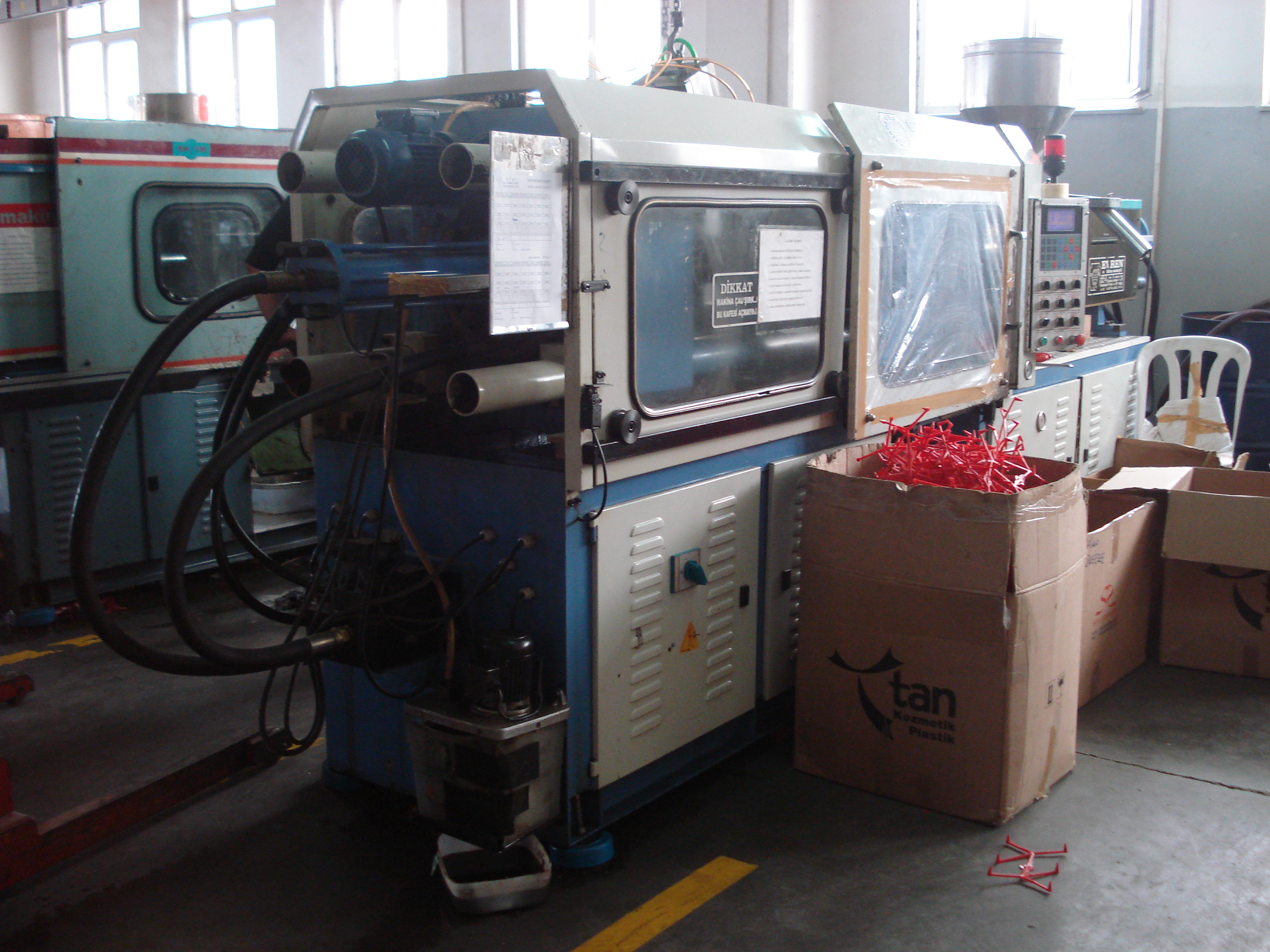 Injection moulding machine that makes caps of cosmetics bootles from İstanbul